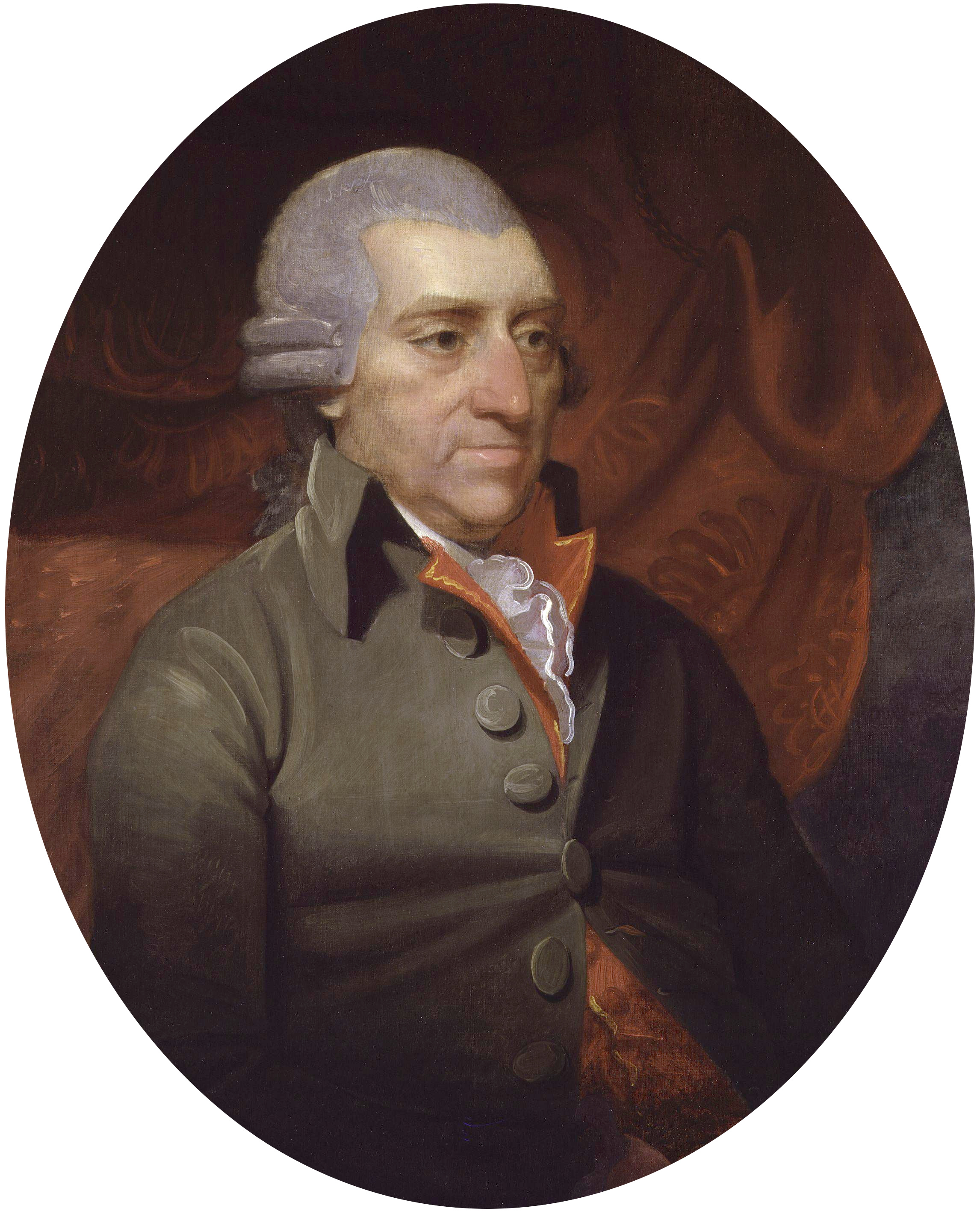 All images in this batch have been confirmed as author died before 1939 according to the official death date listed by the NPG.